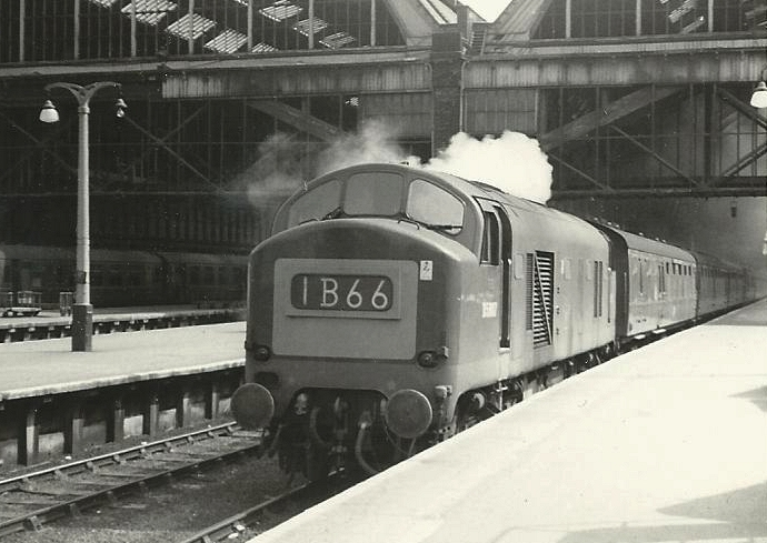 English Electric Type 2 (later Class 23) "Baby Deltic" 1,100hp Bo-Bo No.D5907 (as refurbished with headode panels compared to as built as part of the Pilot Scheme) in BR green livery with light green stripe and yellow warning panel erupts in characteristic Deltic-engined fashion as it starts an express for Cambridge at Kings Cross, 07/66. Scanned photograph taken with a Kowa SET camera.